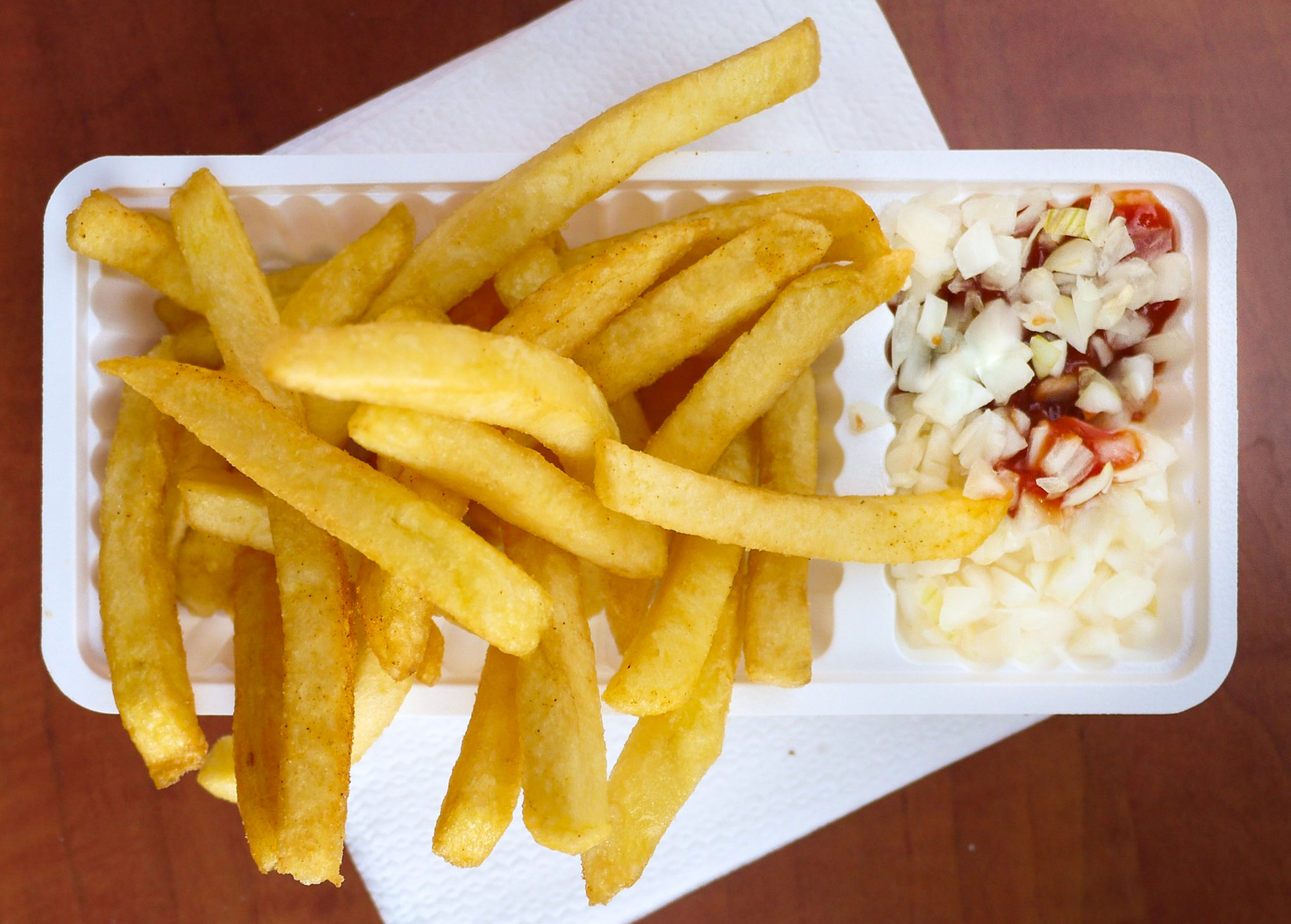 A Patat speciaal or Friet speciaal: French fries served with a sauce mix consisting of "frietsaus" (a kind of mayonnaise), "curry-ketchup" or tomato ketchup (the latter is used in this image), and chopped raw onions.